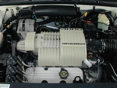 Buick V6 engine